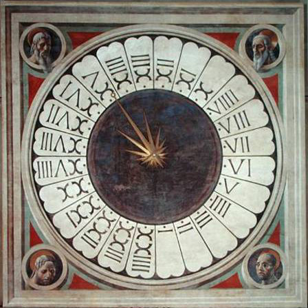 24-hours-clock painted by Paolo Uccello in Santa Maria del Fiore in Florence.